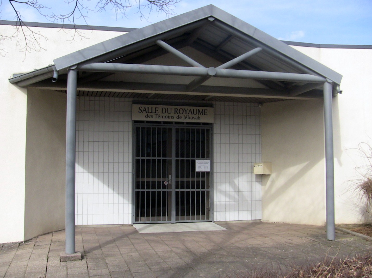 Jehovah's Witnesses church, located in Besançon (Doubs, France).